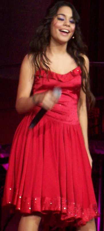 Breaking Free